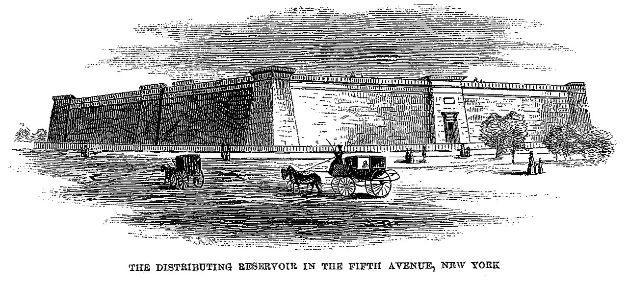 "Croton Aqueduct - Harper's 1860 - The Distributing Reservoir in the Fifth Avenue, New York."